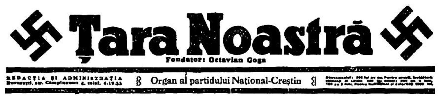 Ţara Noastră, the fascist and antisemitic "organ of the National Christian Party", published in Bucharest by poet Octavian Goga. The swastika, incorporated into the paper's logo in 1935, was the National Christian and "Aryan" symbol (see Politics and Political Parties in Roumania, page 25).